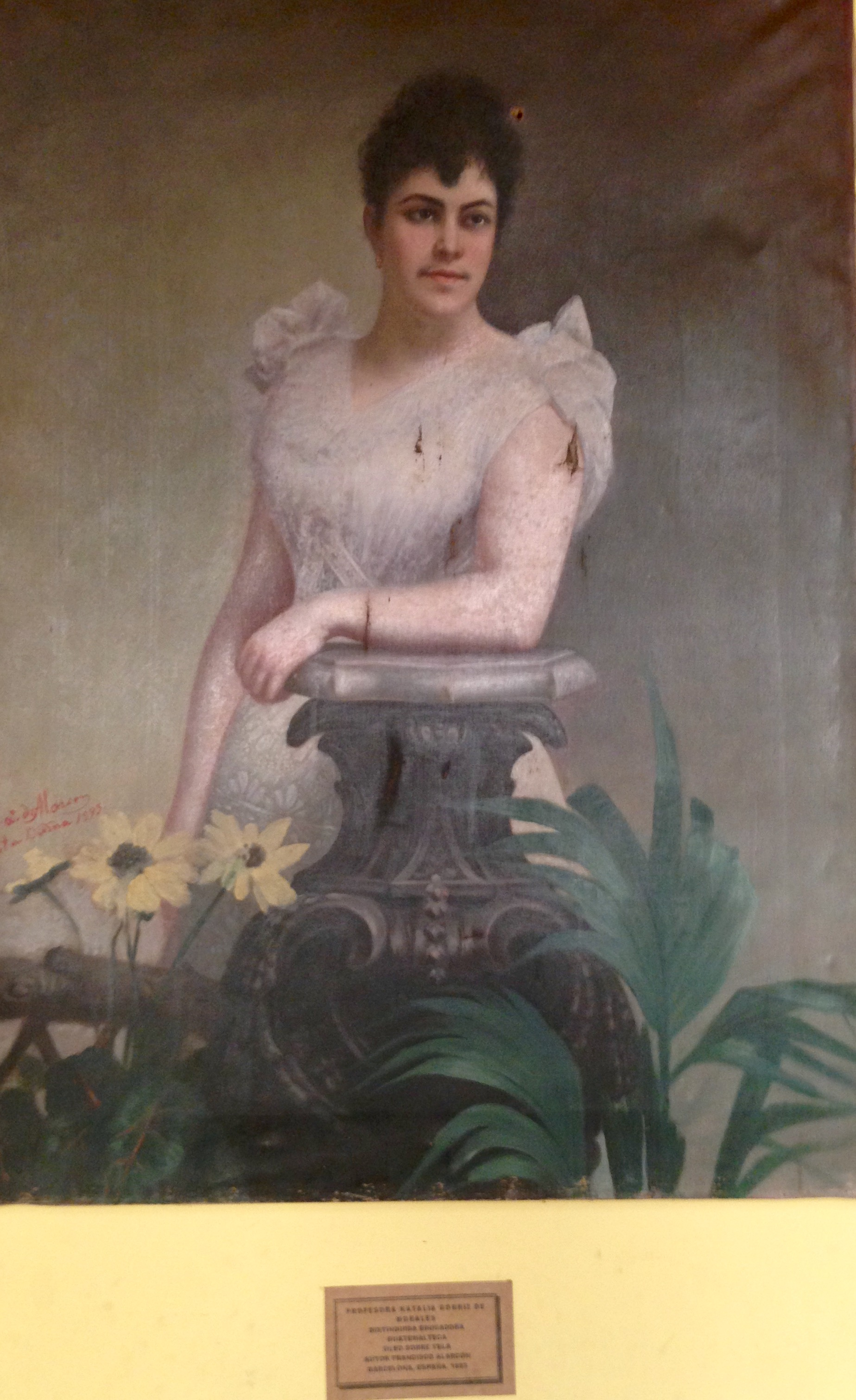 Educadora guatemalteca Natalia Górriz de Morales. Retrato realizado por Francisco Alarcón en Barcelona, España y localizado en el museo nacional de Historia de Guatemala